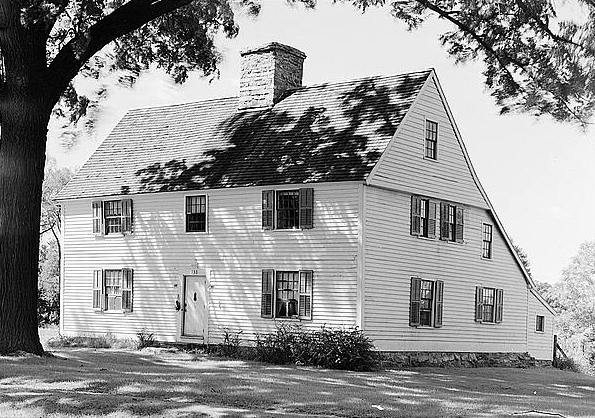 The Comfort Starr House — in Guilford, Connecticut. Photo from the HABS—Historic American Buildings Survey of Connecticut. Category:Images of buildings and structures Category:Saltbox architecture Category:Images of Connecticut படிமம்:Comfort Starr House.jpg